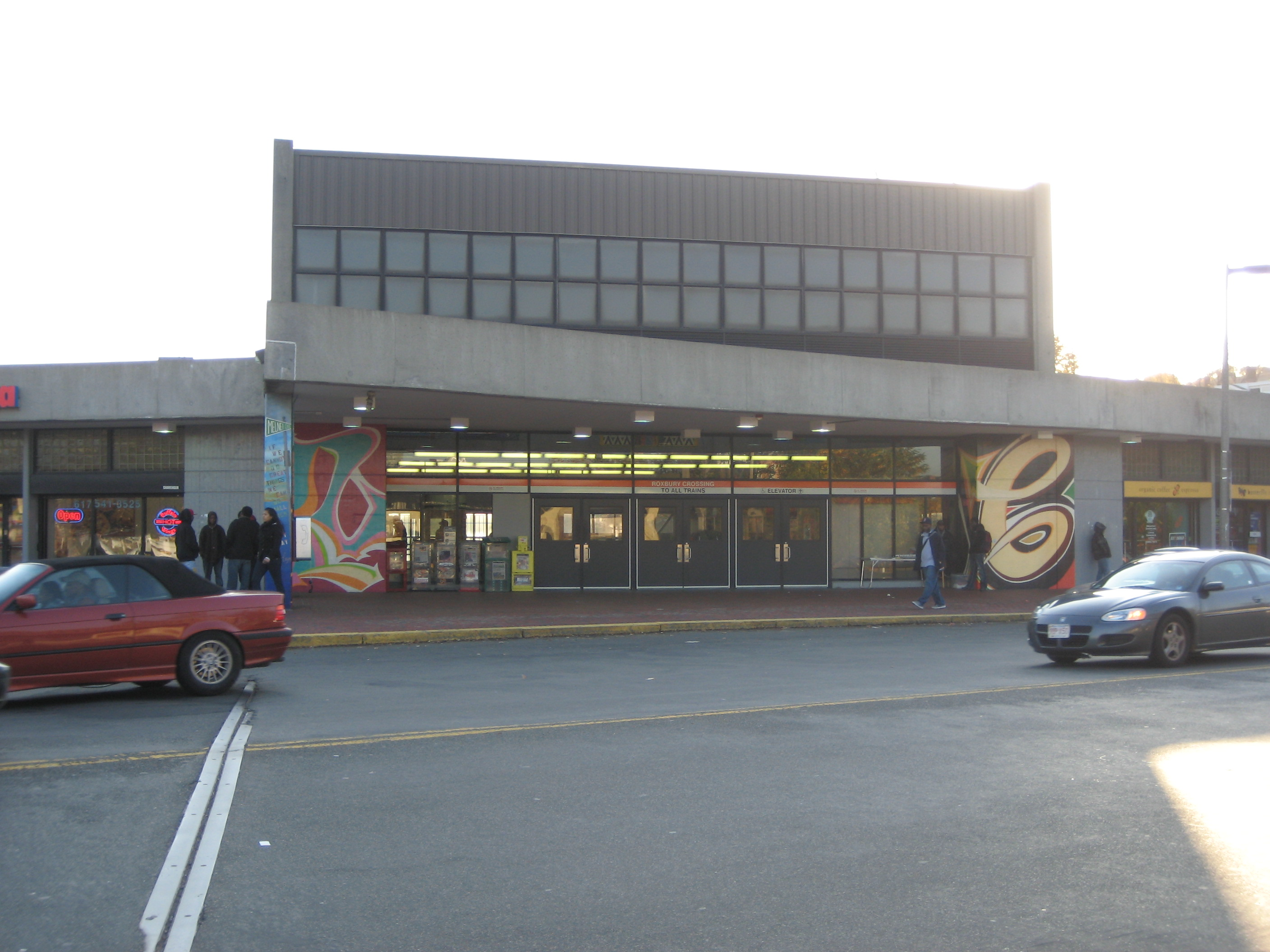 Roxbury Crossing Station on the MBTA Orange Line in Roxbury